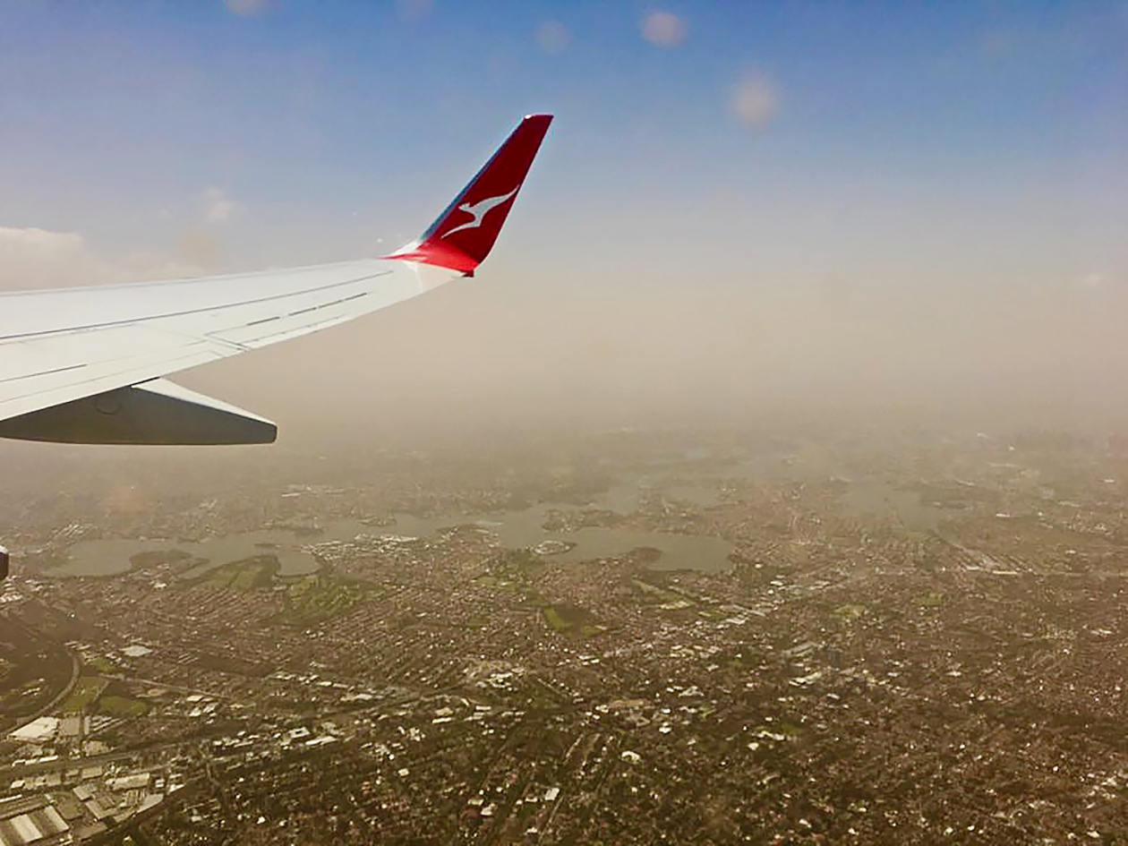 The November 2018 dust storm over Sydney from a flight.